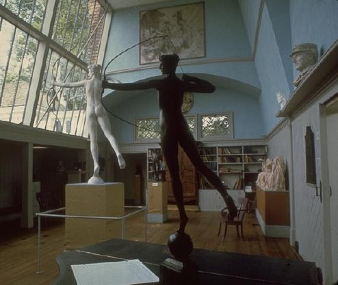 Interior showing sculptures at Saint-Gaudens National Historic Site in Cornish, New Hampshire. Image cropped from a National Park Service photo.[1]